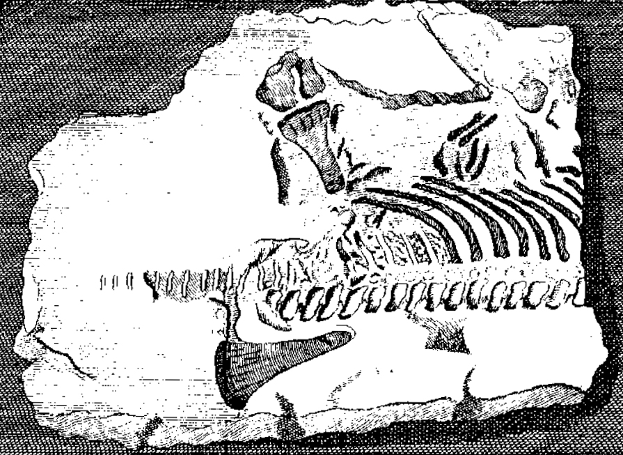 First published plesiosaur fossil.[1]